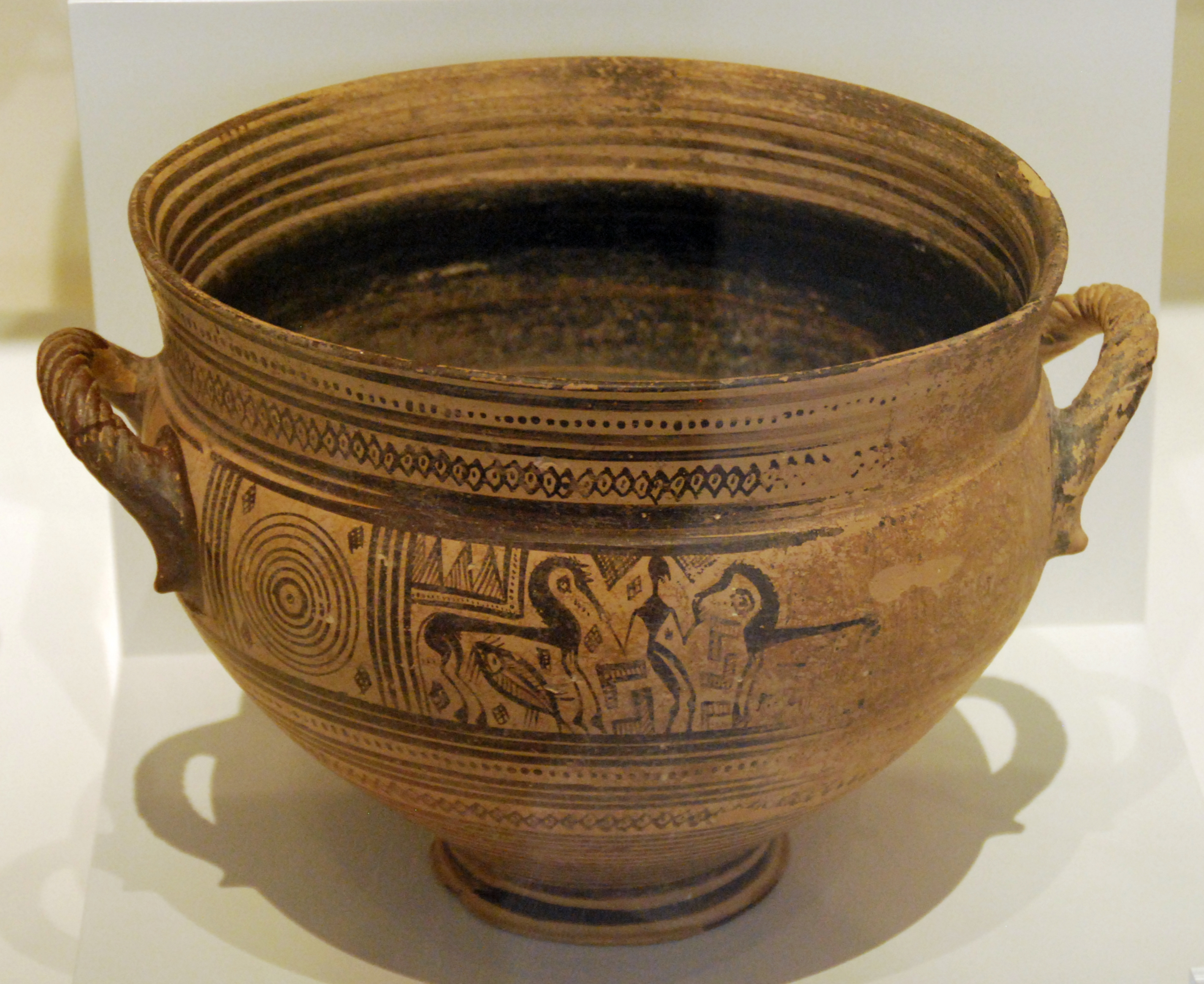 Late geometric krater by the argive Painter of Athens 877 (Name vase), found at melos; manufactures between 730 and 690 BC. Image shows an man with two horses. National Archaeological Museum of Athens Ass.nr. 877.